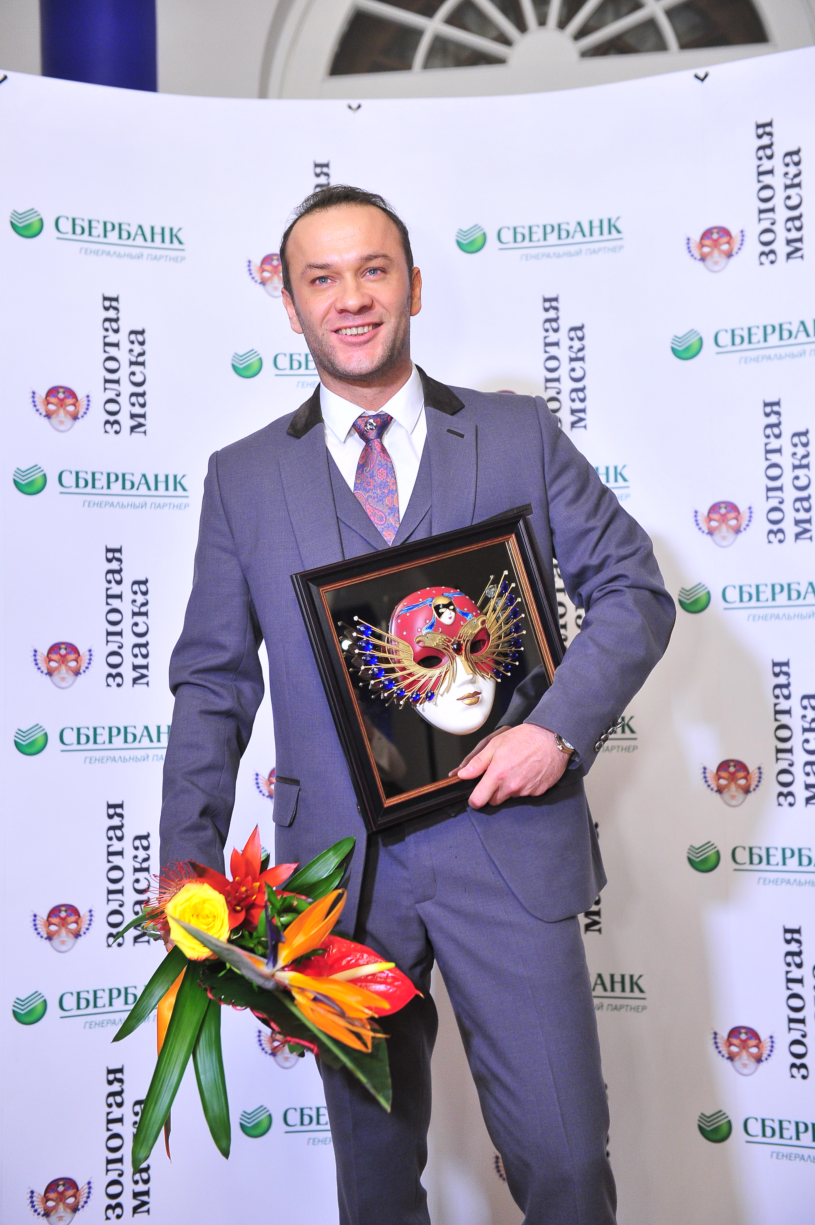 Golden Mask Award